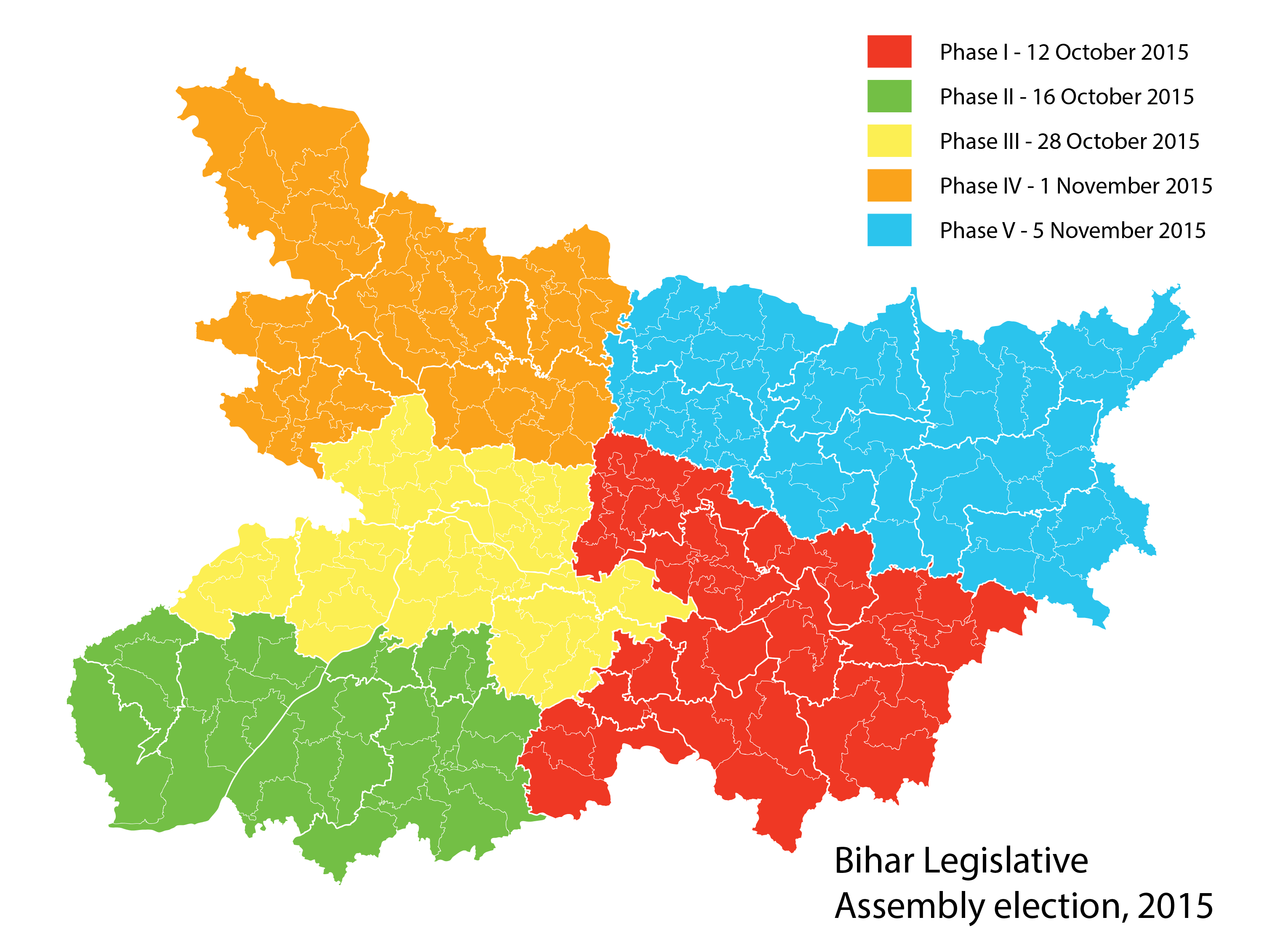 A map showing the polling dates for various districts in the 2015 Bihar Legislative Assembly election.